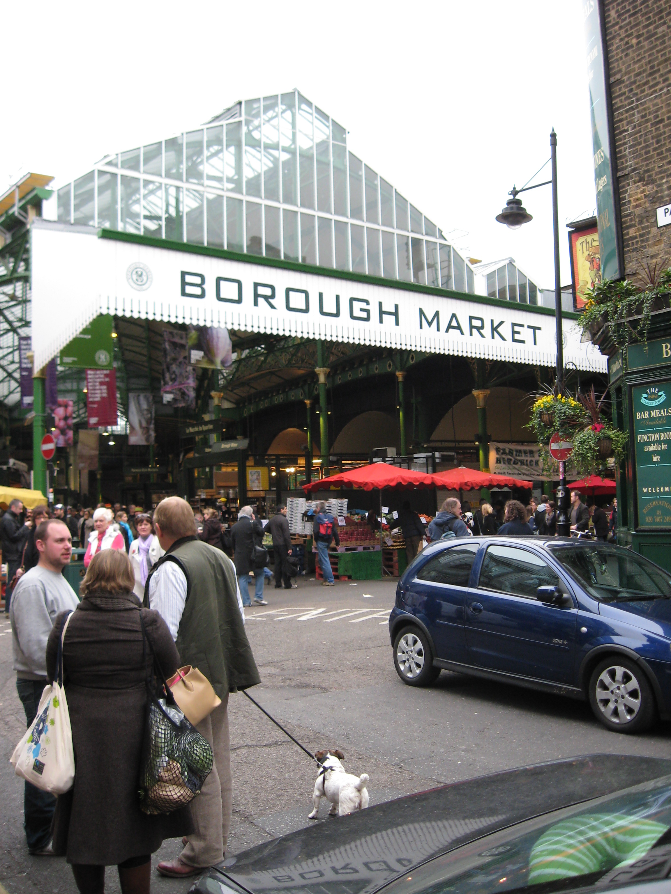 Borough market